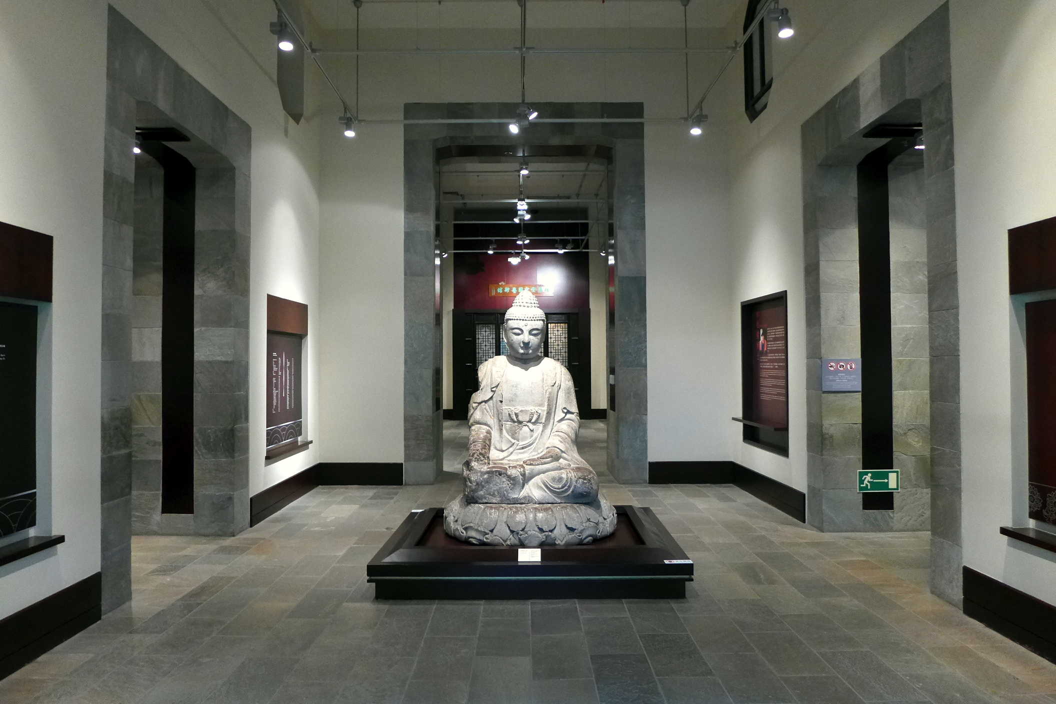 HKHM TTTsui Gallery of Chinese Art